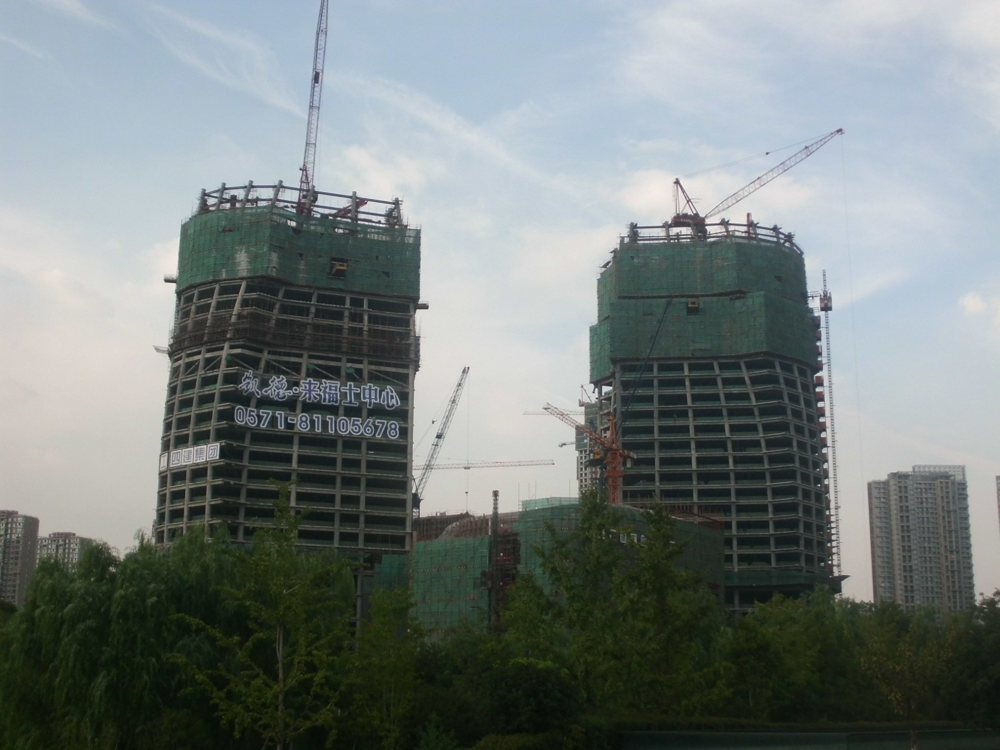 Raffles City Hangzhou